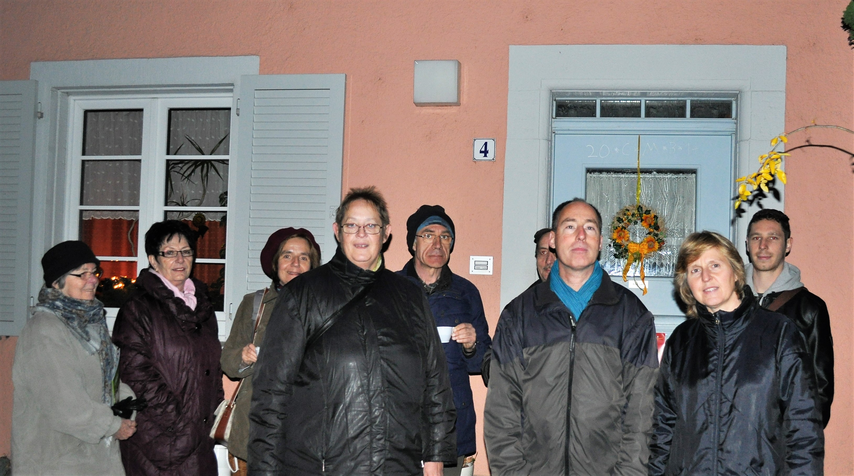 Presentation of the awarded project "Vordtriede House Freiburg" within the Haslach Advent Calendar in 2015.